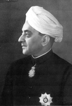 Sir C. P. Ramaswami Aiyar. Sir C.P.Ramaswami Aiyar took over 20000(Twenty Thousand)Acres land of Chempil Arayan Ananthapadmanabhan Valiya Arayan Thanoo Arayan in Erumely,Edakunnam and Ranni Villages.Chempil Valiya Arayan was the First Freedom Fighter of Travancore.Family address "Chempil Valiya Arayan Family Welfare Society(Regd)No.11 g.c.d.a. Colony,Vaduthala P.O.Kochi-23.Secretary:Rana Marthandan